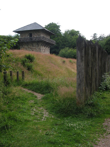 Description: Reconstructed Limes watch tower Wp 3/15, near Kastell Zugmantel, Taunus Source: Selbst fotografiert, 08.07.2005 Taunusstein Other versions Photographer/Painter: Ralf Ziegler, --RalfZi --RalfZi 8 July 2005 21:41 (UTC)